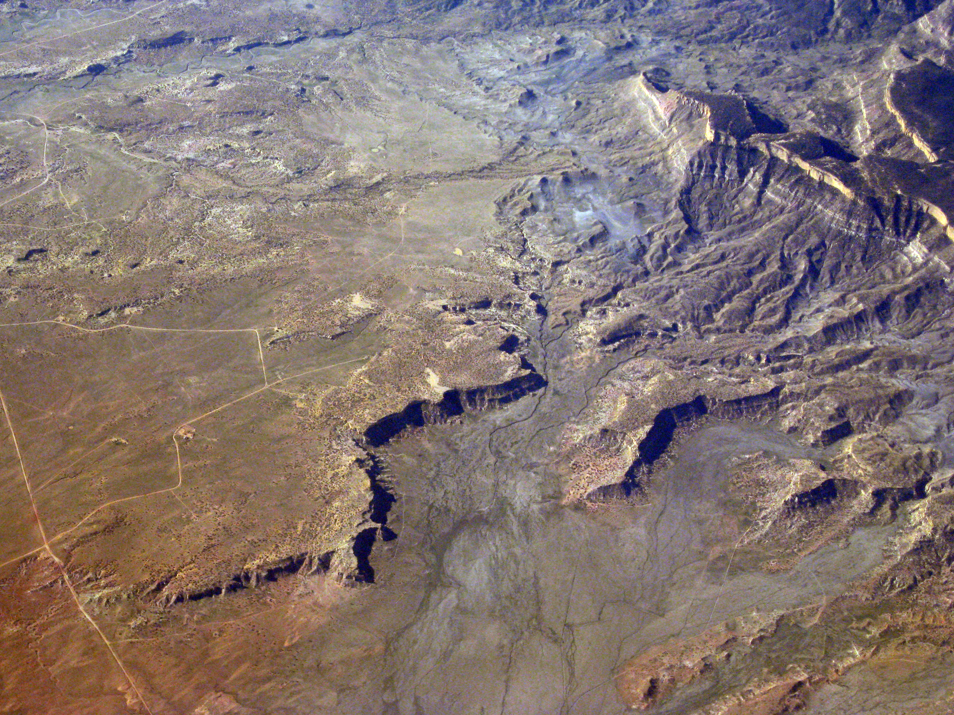 The eastern edge of Black Mesa, west of Chilchinbito, Arizona. The Black Mesa Mine is off to the west.